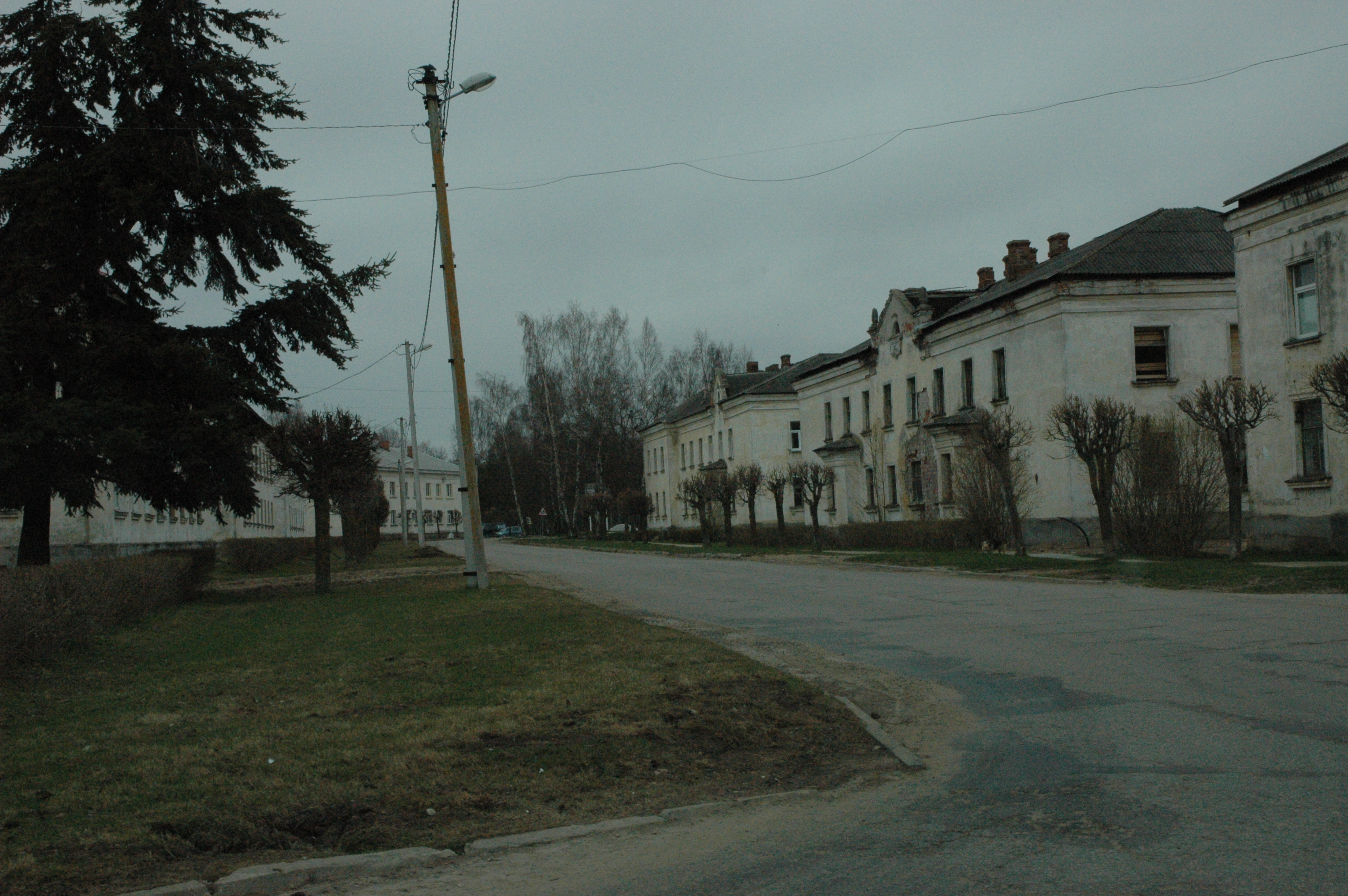 Aseri, Estonia.